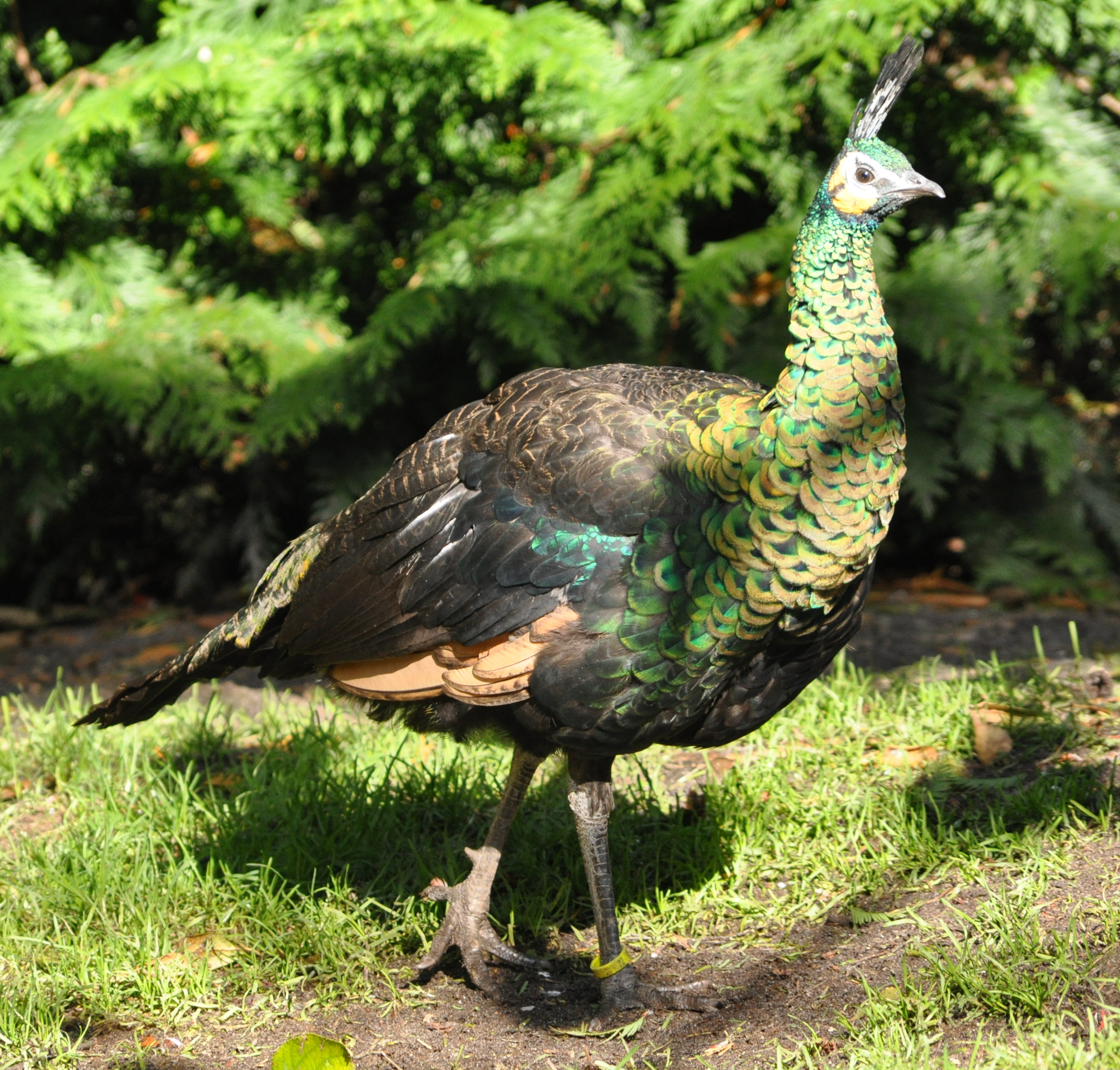 Green Peafowl (Pavo muticus) in the Walsrode Bird Park, Germany.